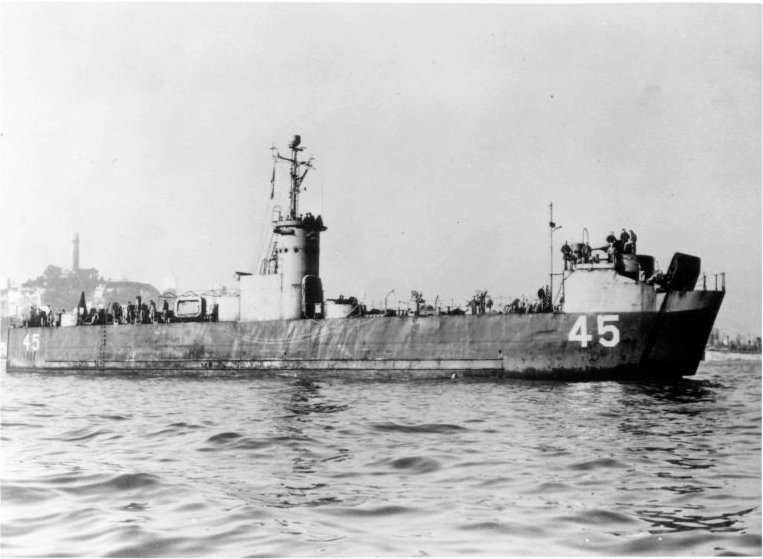 USS LSM-45 in San Francisco Bay 1945 or 1945, Coit Tower can be seen in the background.